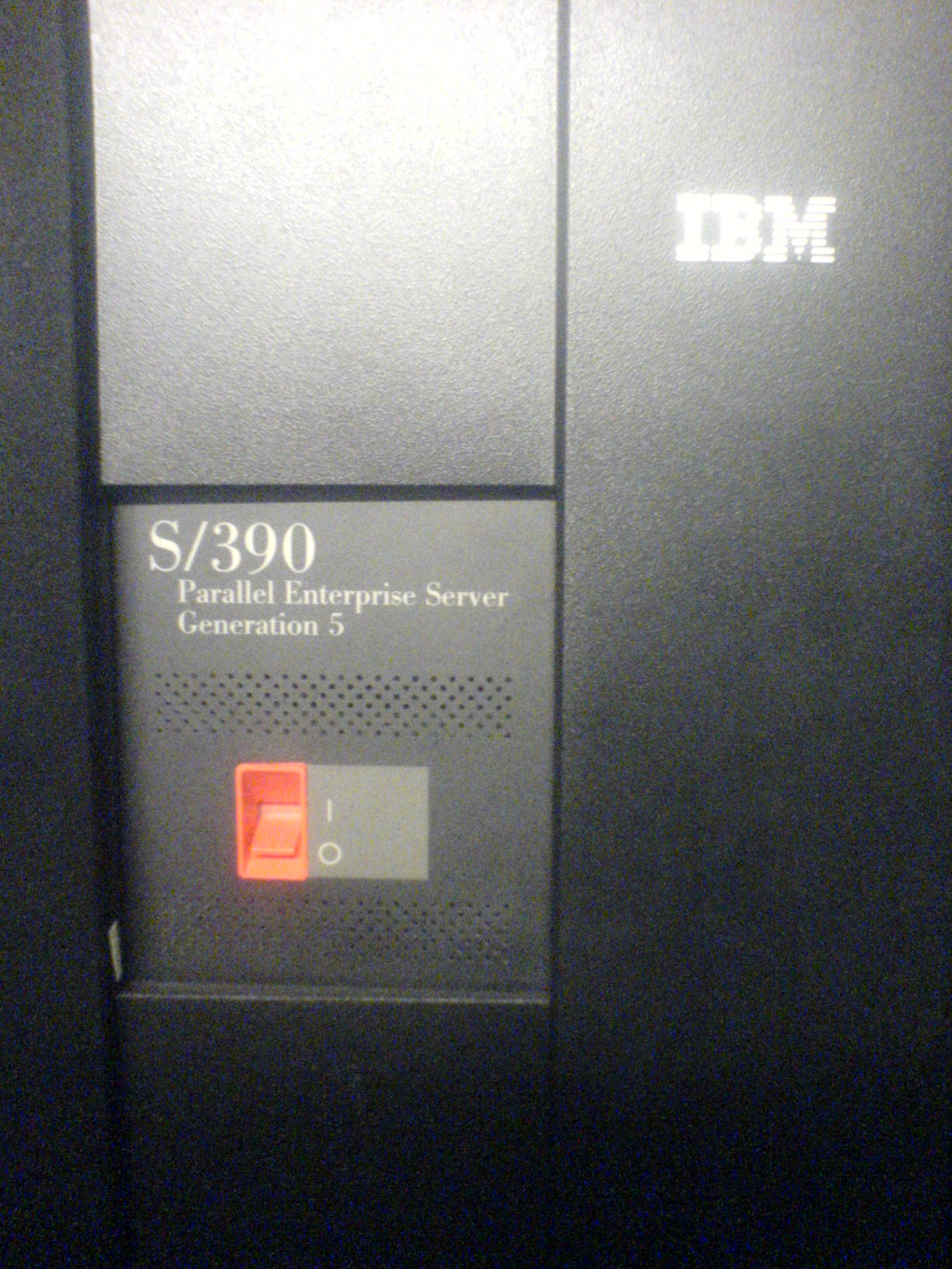 S/390 Generation 5, cover closed. Photo taken by myself.